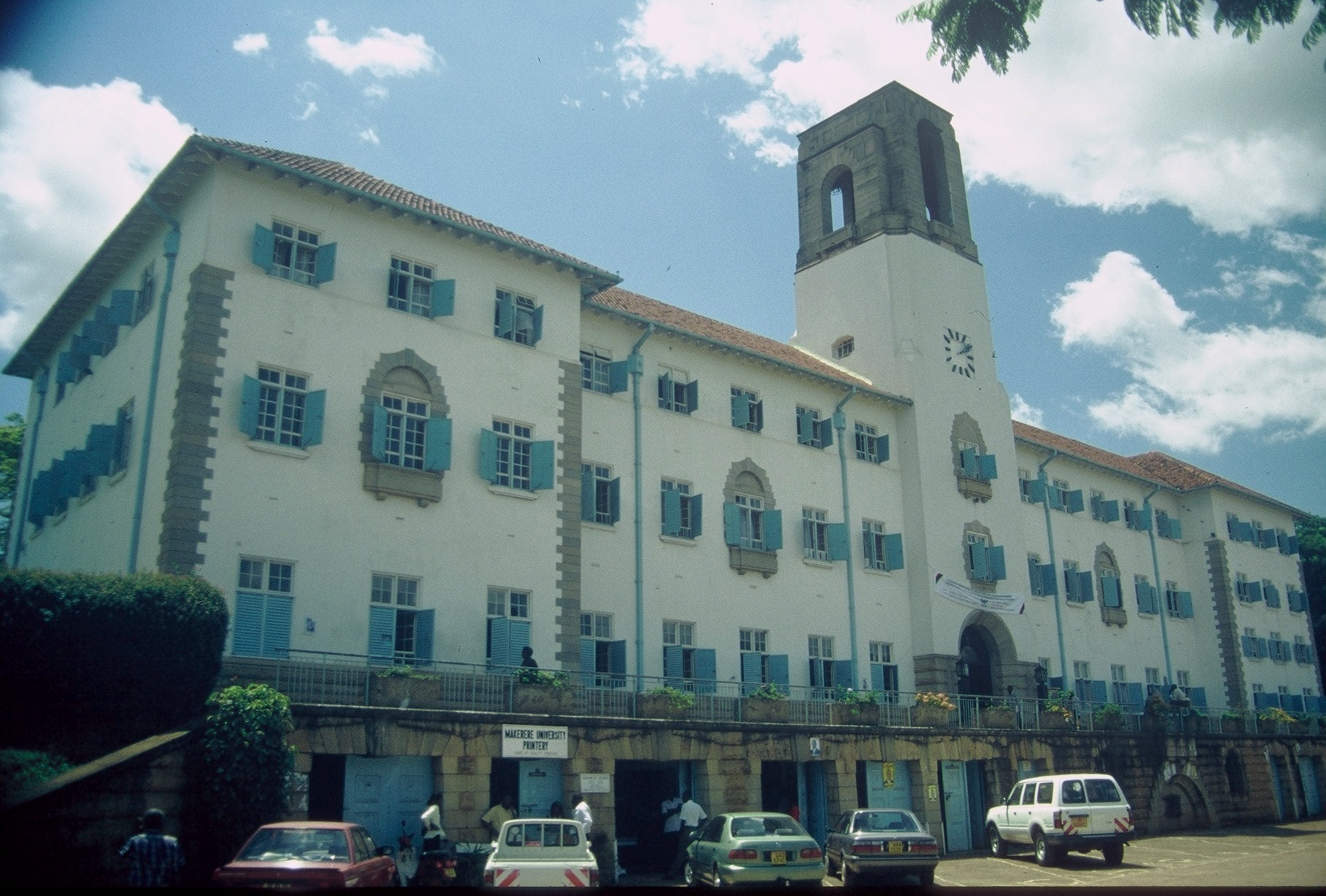 Makerere University, Kampala, Uganda. Main building